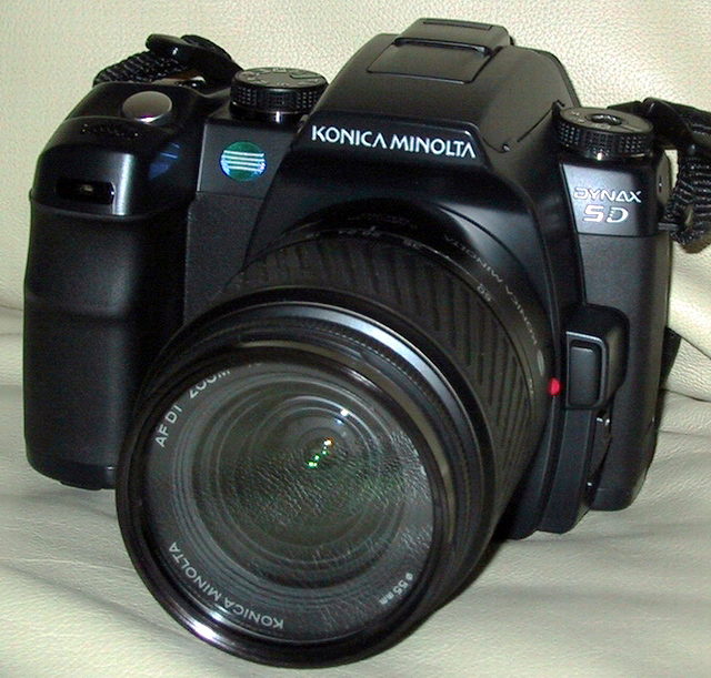 Konica Minolta Dynax 5D with AF DT 18 - 70 mm lens